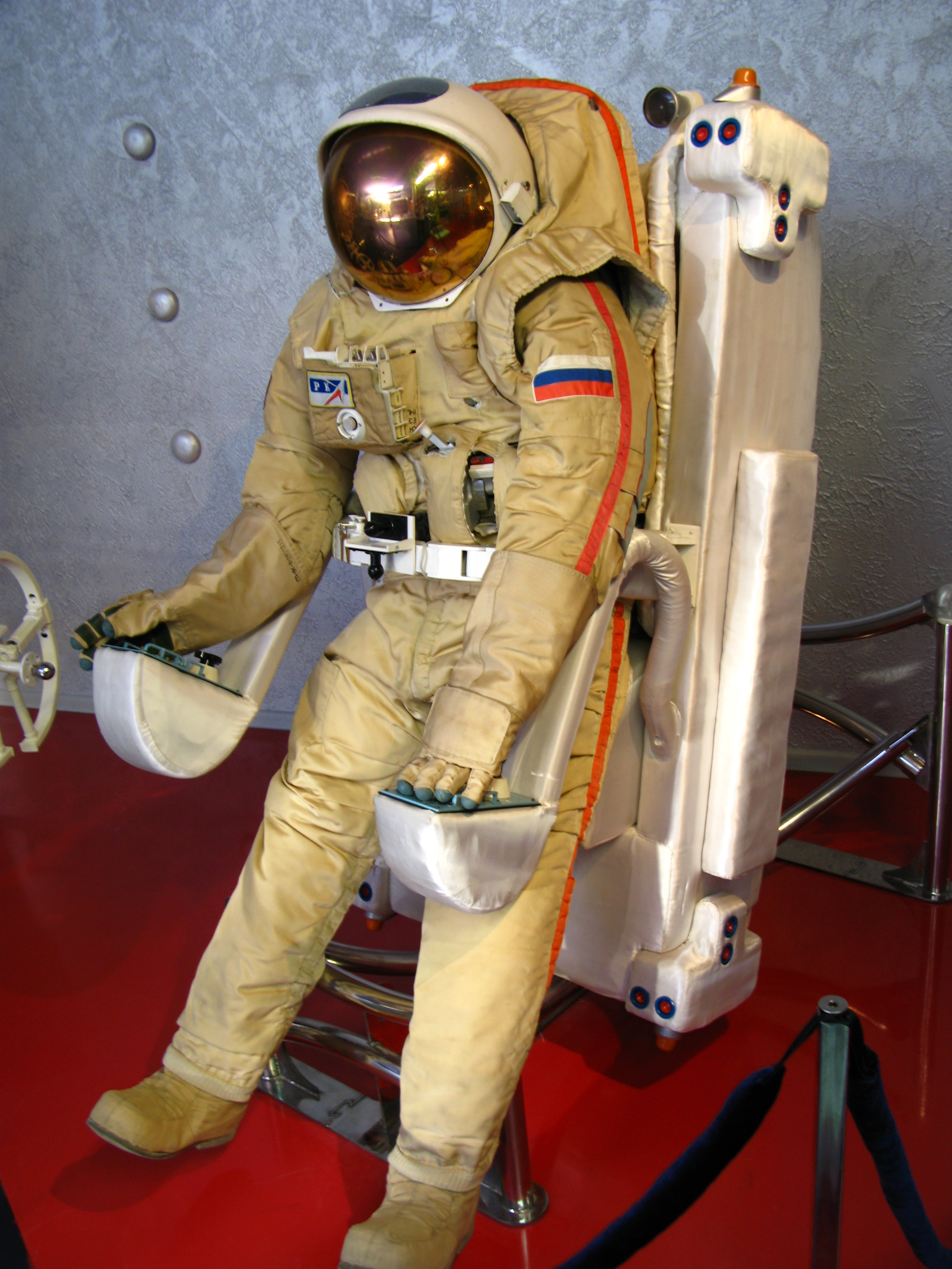 Russian space suit and personal propulsion for flying in space.